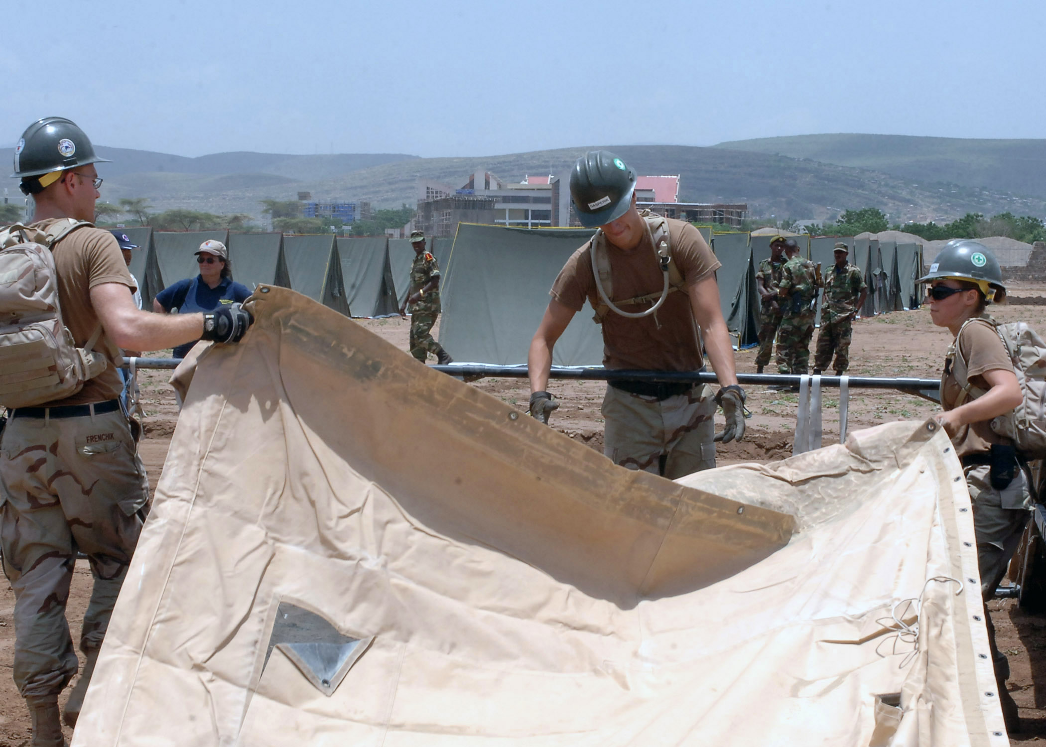 Dire Dawa, Ethiopia (Aug. 21, 2006) - A team of U.S. Navy Seabees assigned to Naval Mobile Construction Battalion Five (NMCB 5), attached to Combined Joint Task Force Horn of Africa (CJTF HOA), set up tents to house approximately 6,000 displaced victims of a devastating flood that hit Dire Dawa, Ethiopia. NMCB-5 joined a multi-national effort, including Non-Governmental Organizations (NGO) and United States Agency for International Development (USAID) in the humanitarian effort following 15 days of heavy rain that washed away roads and homes in the region. U.S. Navy photo Chief Mass Communication Specialist Robert Palomares (RELEASED)